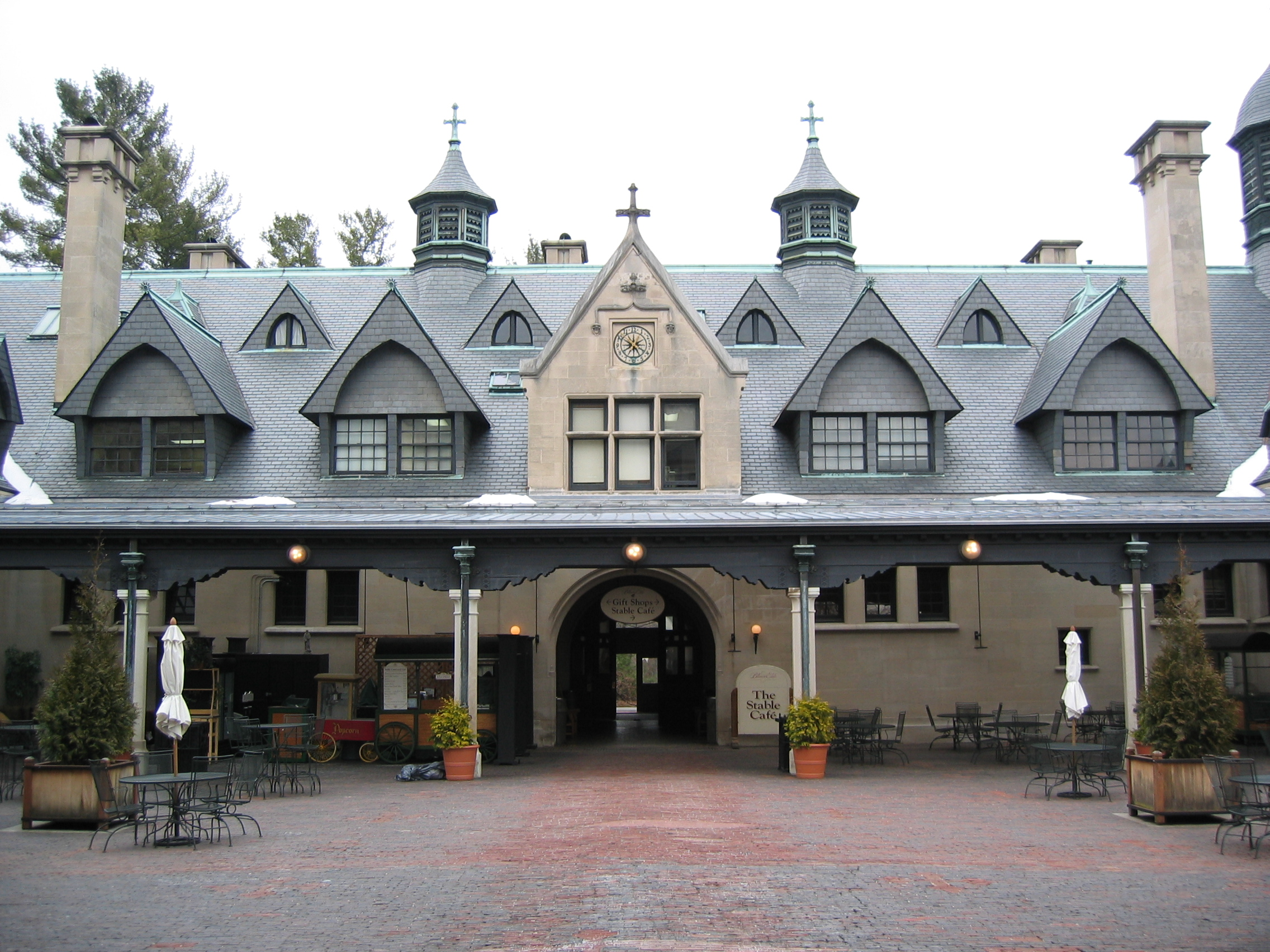 Building on the grounds of the Biltmore Estate in Asheville, North Carolina.